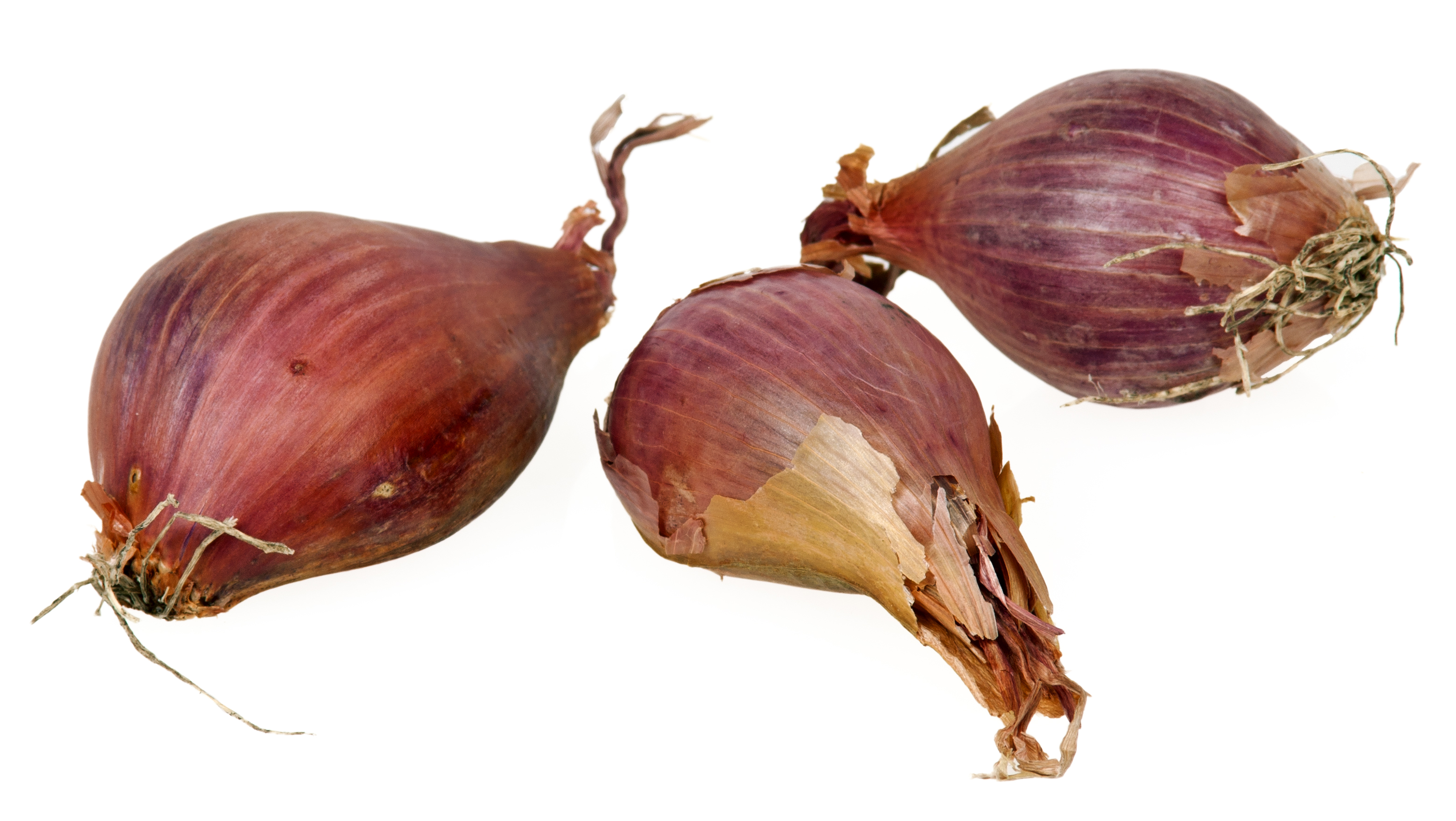 Shallots, a smaller onion variant used for cooking. These were bought in the American Northeast.